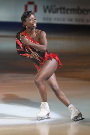 Surya Bonaly at Nürnberg Gala 2007